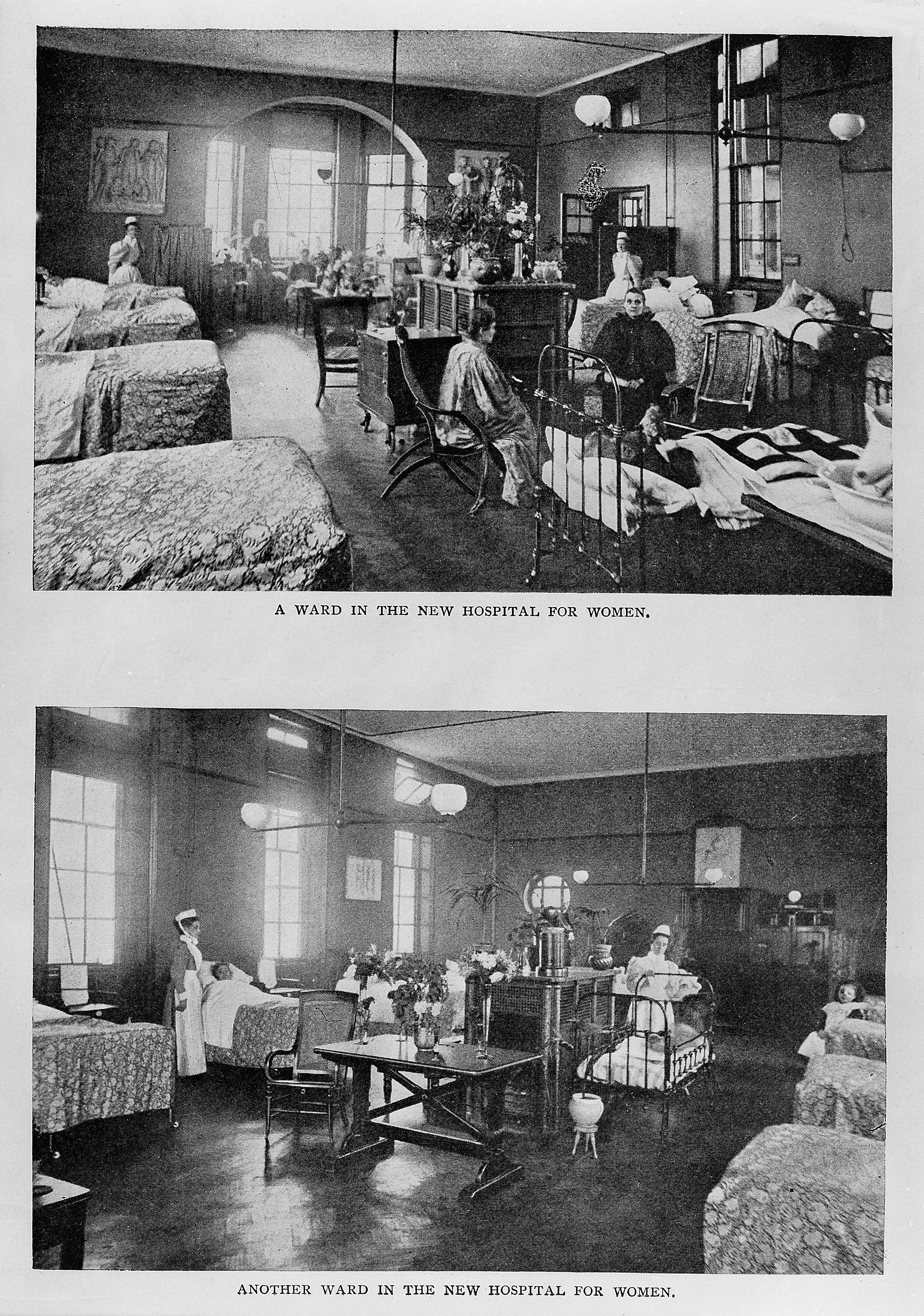 Two wards of the New Hospital for Women. From a magazine of 1899. Wellcome Images